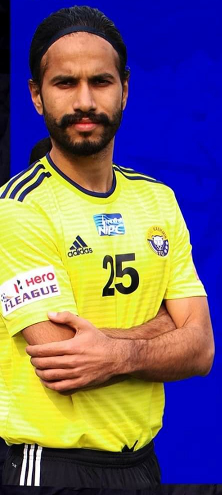 Arashpreet Singh in Real Kashmir FC Home Jersey British